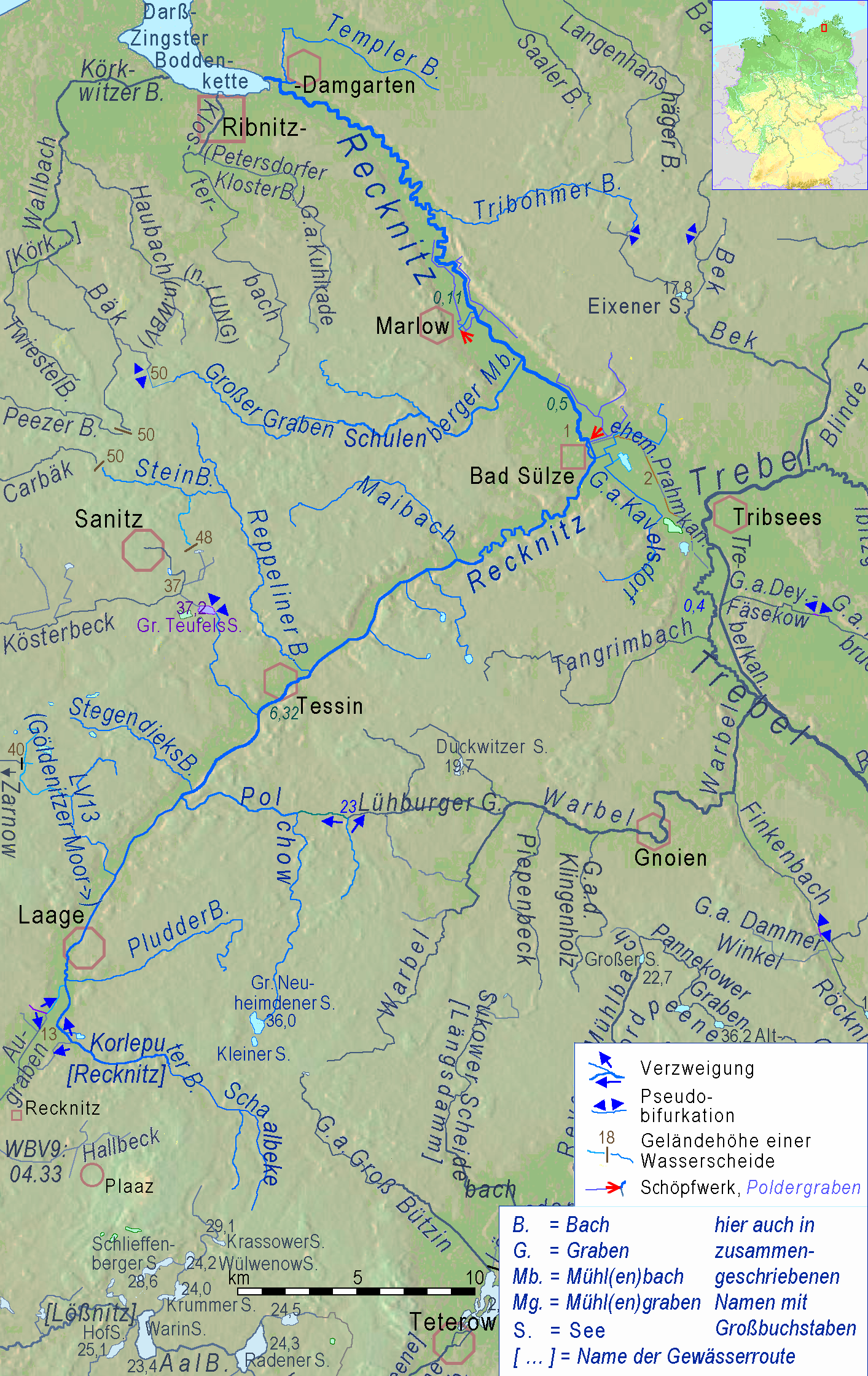 Recknitz River and its connections in a cut of Peene river system.